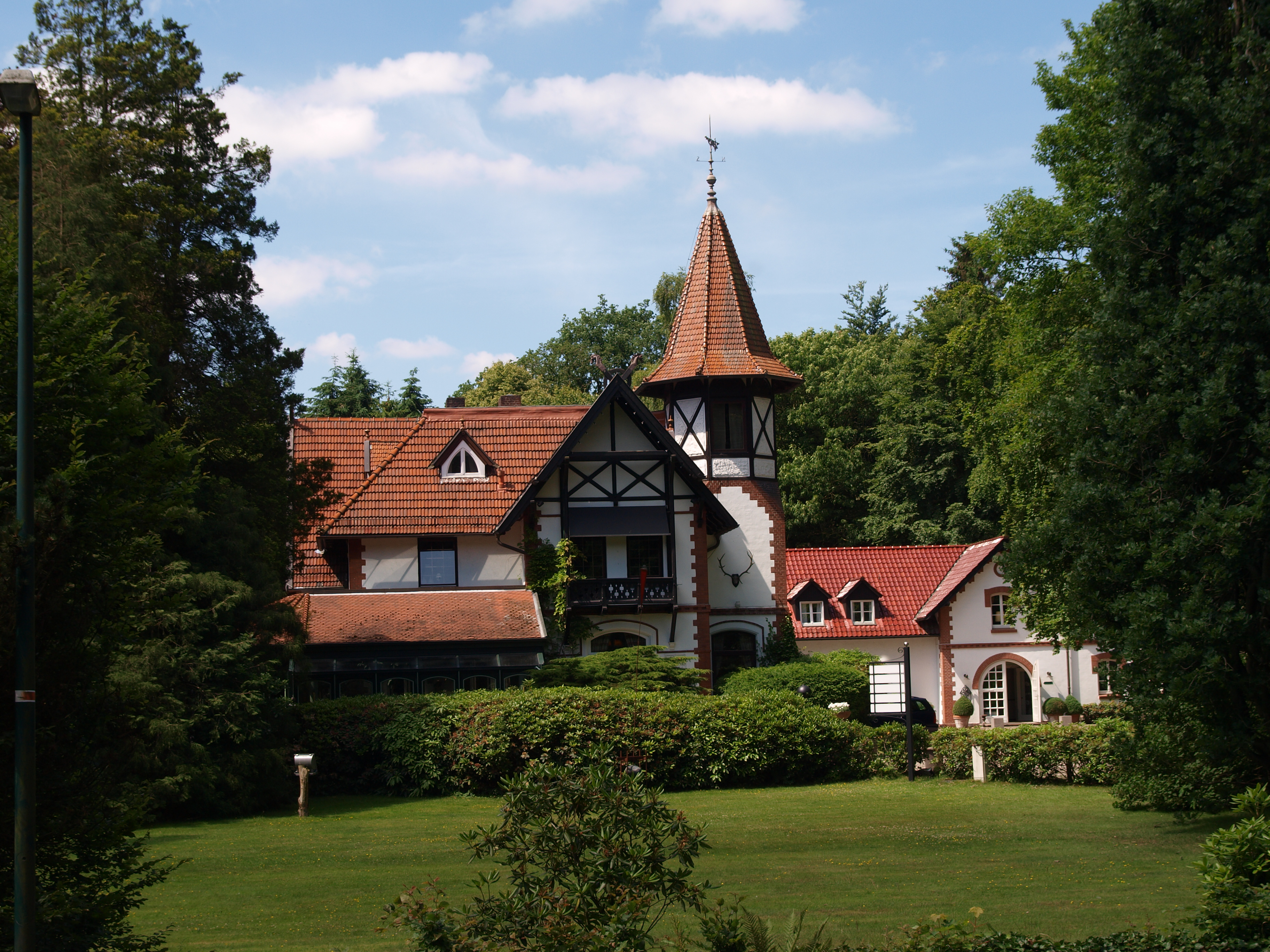 Hotel Haus Waldfrieden, Kieler Straße 1, Bilsen, Schleswig-Holstein, Germany. Cultural heritiage monument.